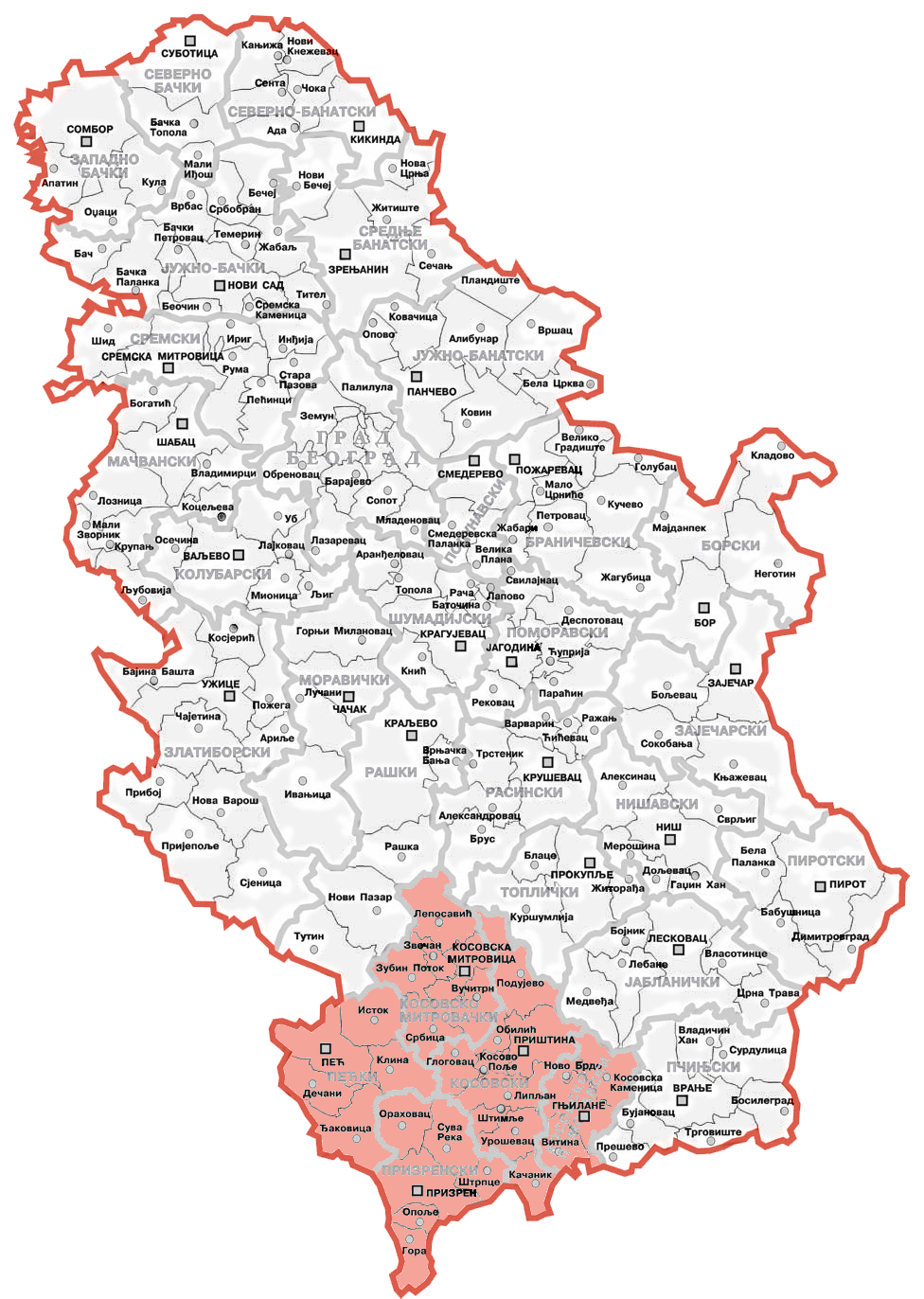 Map of Kosovo within Serbia